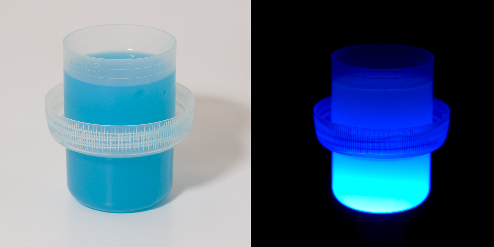 Liquid laundry detergent under ultraviolet light (UV). Manufacturers put fluorescent phosphors in detergent, so when clothes washed in the detergent are viewed in sunlight the UV light in in the sunlight causes them to glow or fluoresce making the clothes look whiter. Under the UV light the phosphors in the detergent glow. It's used to make clothes appear whiter under sunlight.